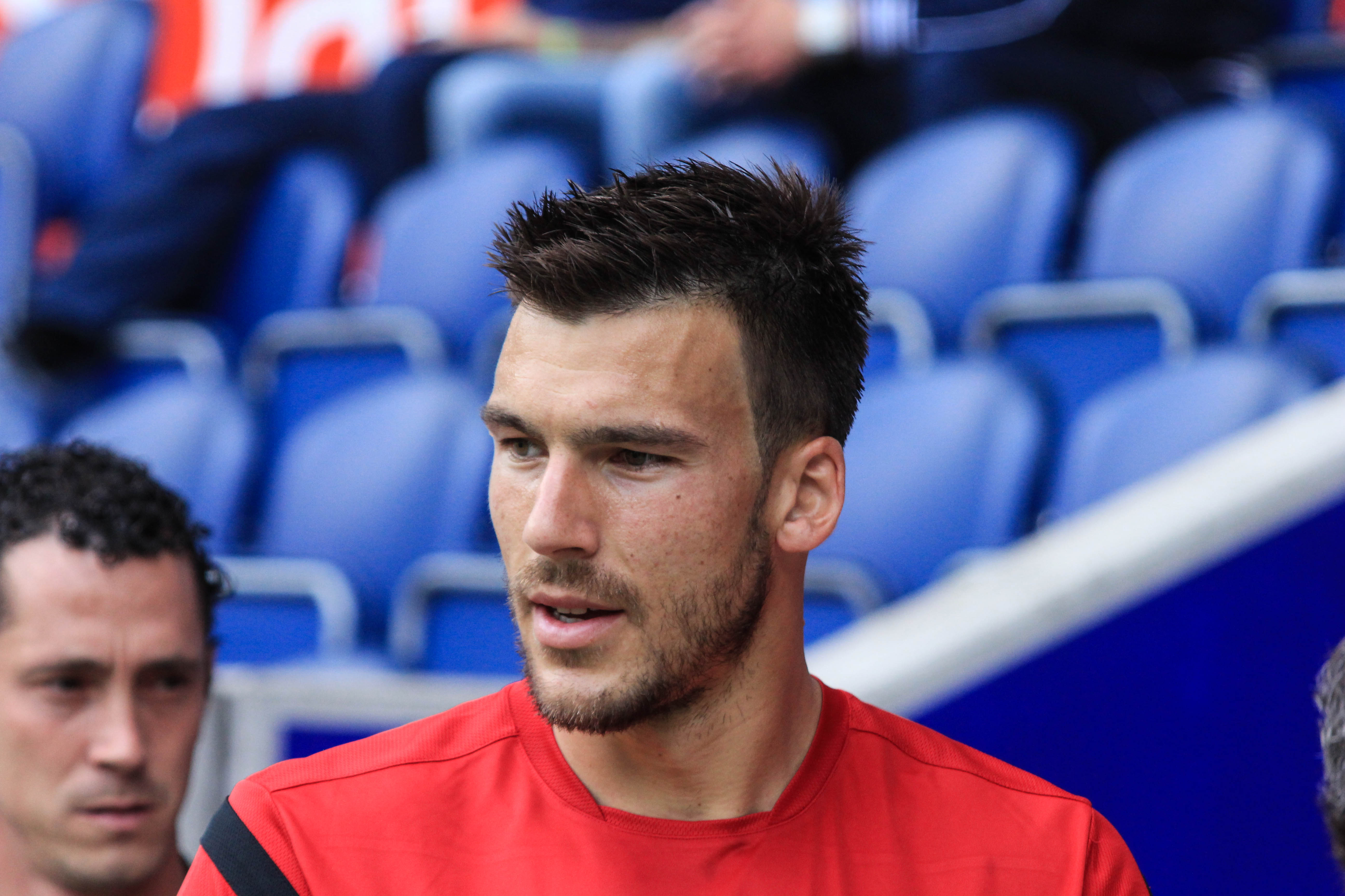 Portuguese football goalkeeper Daniel Fernandes, FC Twente